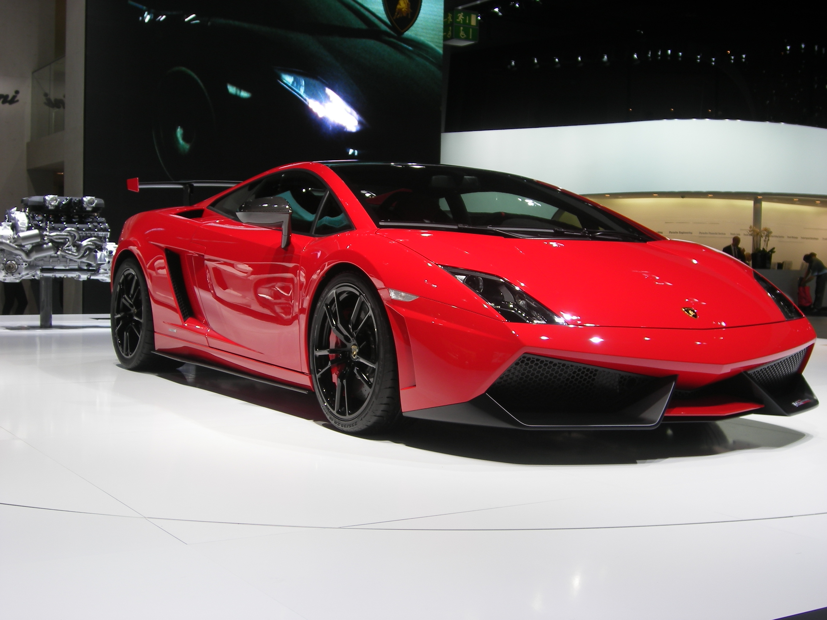 For more info + pics, please check